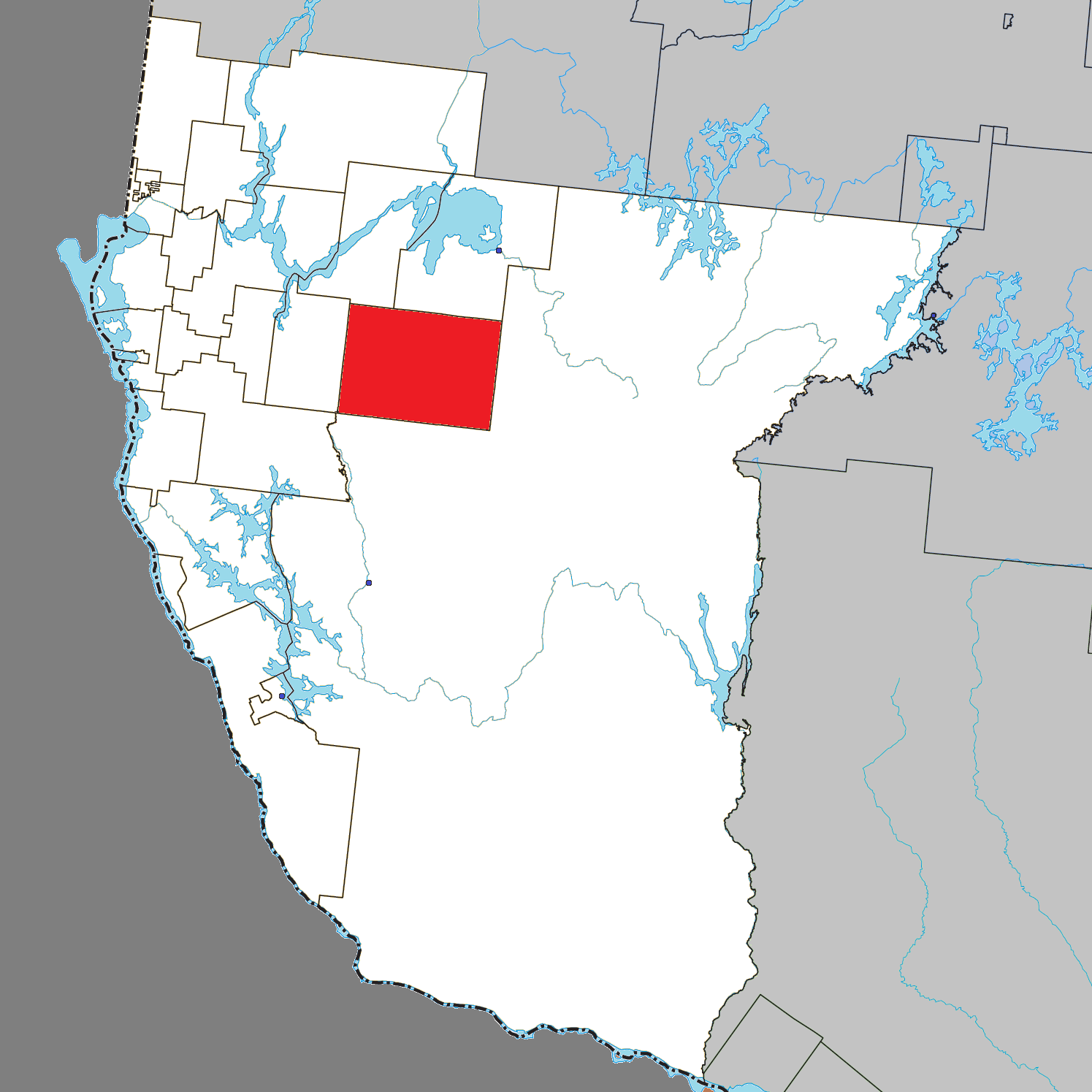 Location of Belleterre, Quebec within Témiscamingue Regional County Municipality.